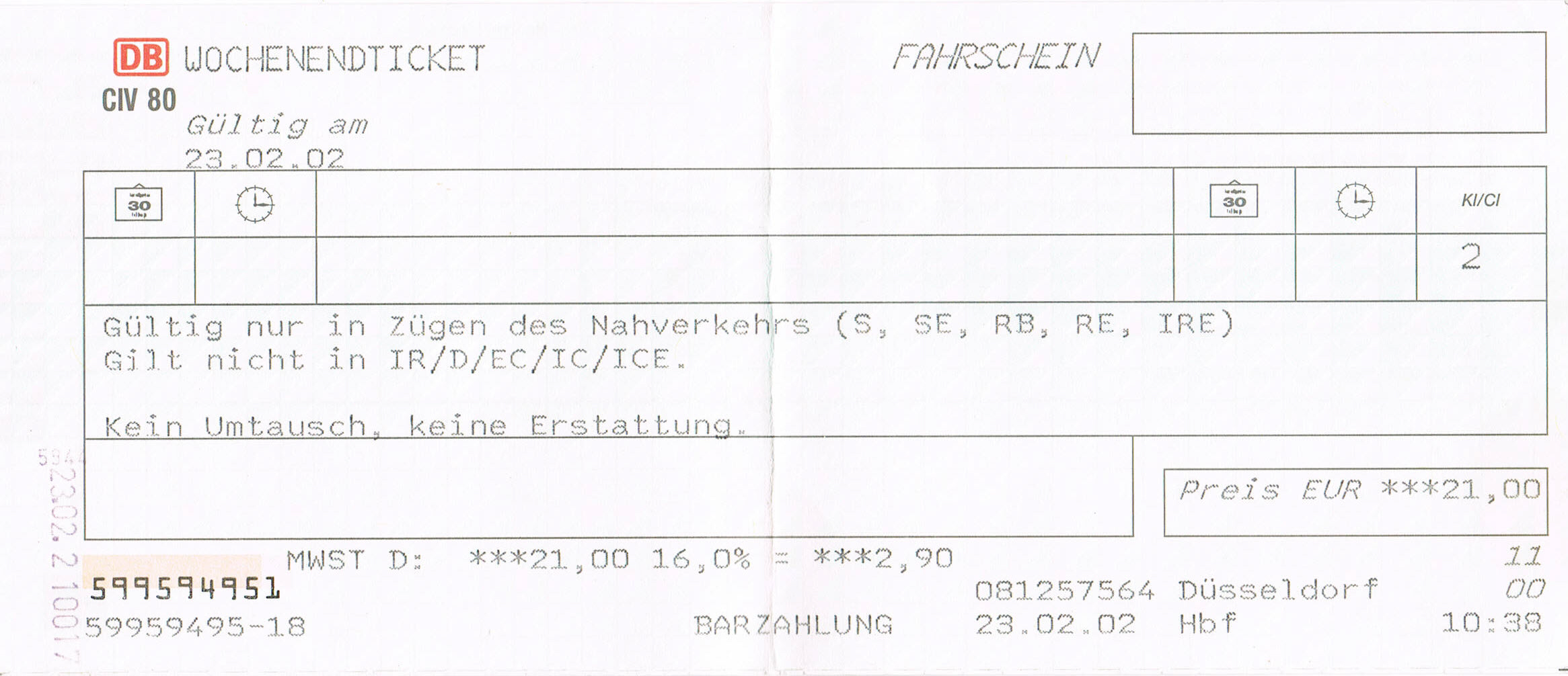 A "Schönes Wochenende"-Ticket ("happy weekend ticket"), one of the most popular Deutsche Bahn tickets. This one was bought on February 23rd, 2002 to take a trip to Hesse.